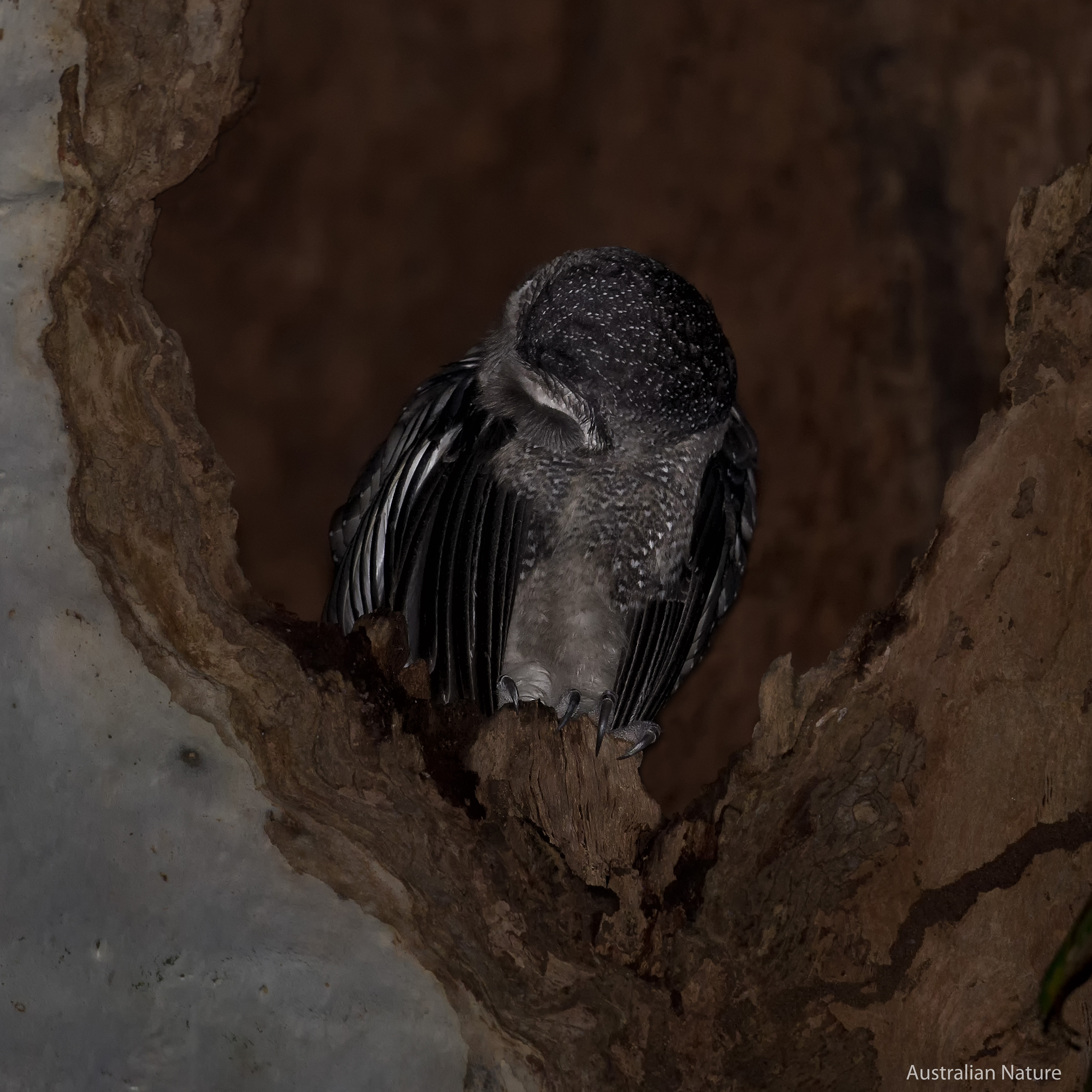 Greater Sooty Owl (Tyto tenebricosa) preens before total darkness in the rainforest. Fine white spots cover the crown, nape and down the breast. A powerful hunter, the Sooty Owl is a predator which preys on almost all tree and surface-dwelling small mammals. Tree-dwelling species such as gliders and Ring-tailed possums comprise a large part of the Sooty Owl diet.